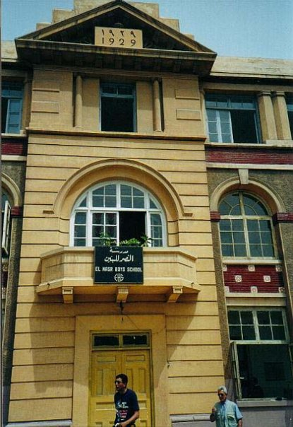 Own photograph. El Nasr Boys' School